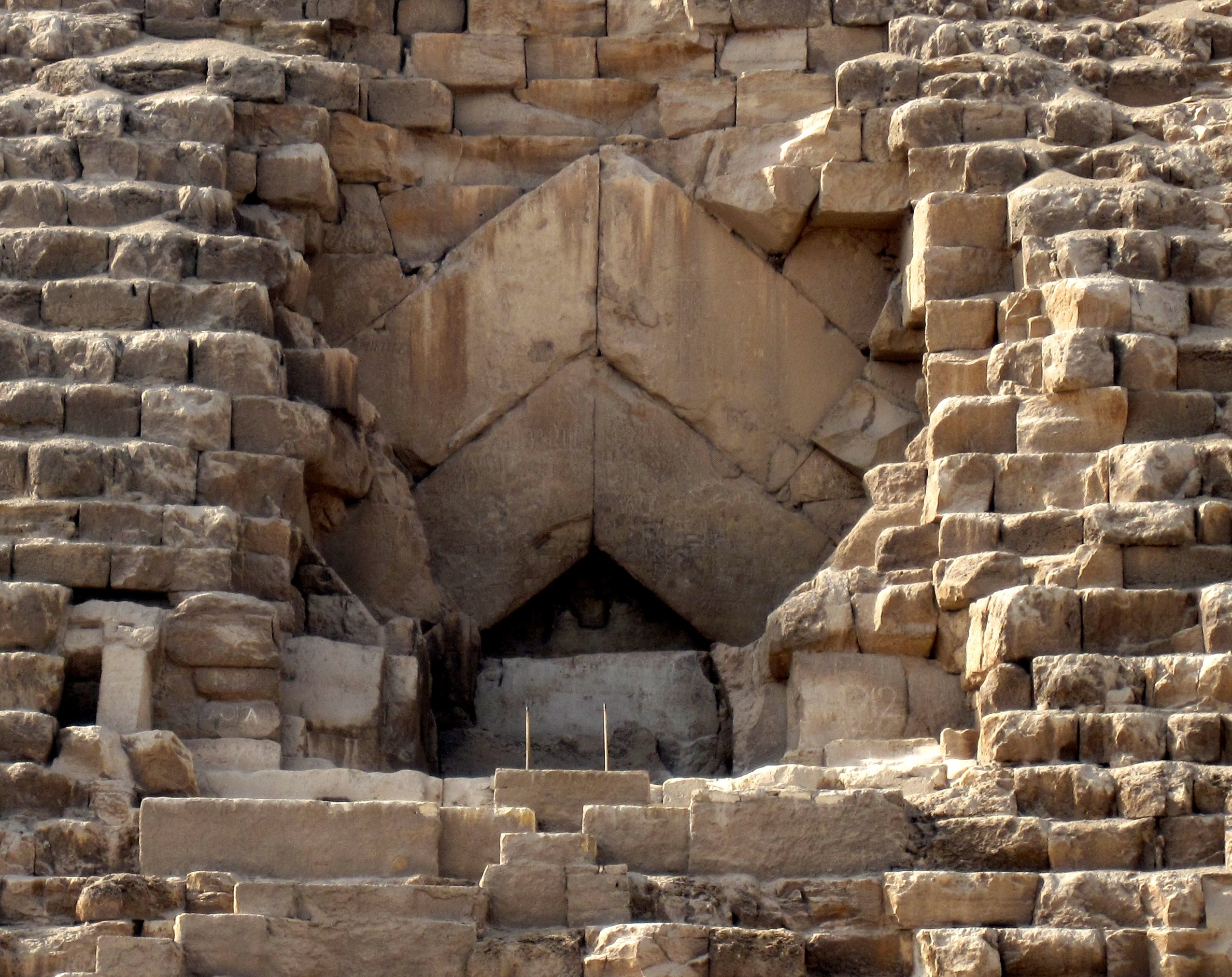 Detail of the north side of the Cheops pyramid, located on the Giza plateau near Cairo, Egypt.